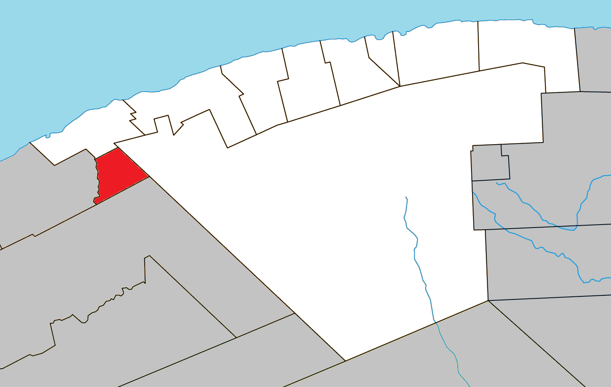 Location of Coulée-des-Adolphe, Quebec within La Haute-Gaspésie Regional County Municipality.